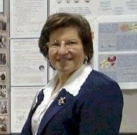 en: Janet Akyüz Mattei, President of AAVSO (en: American Association of Variable Star Observers) between 1973-2004.